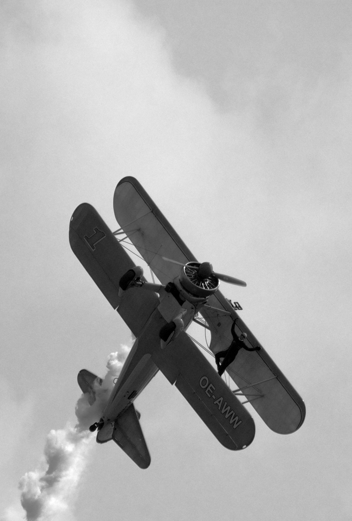 Boing Stearman PT-17 by the Wingwalking at Aero Friedichshafen